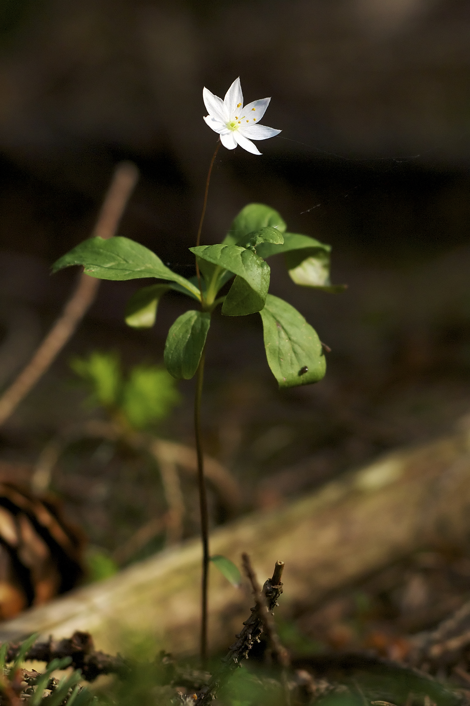 Arctic Starflower (Trientalis europaea), Schöneck/Vogtland, Germany